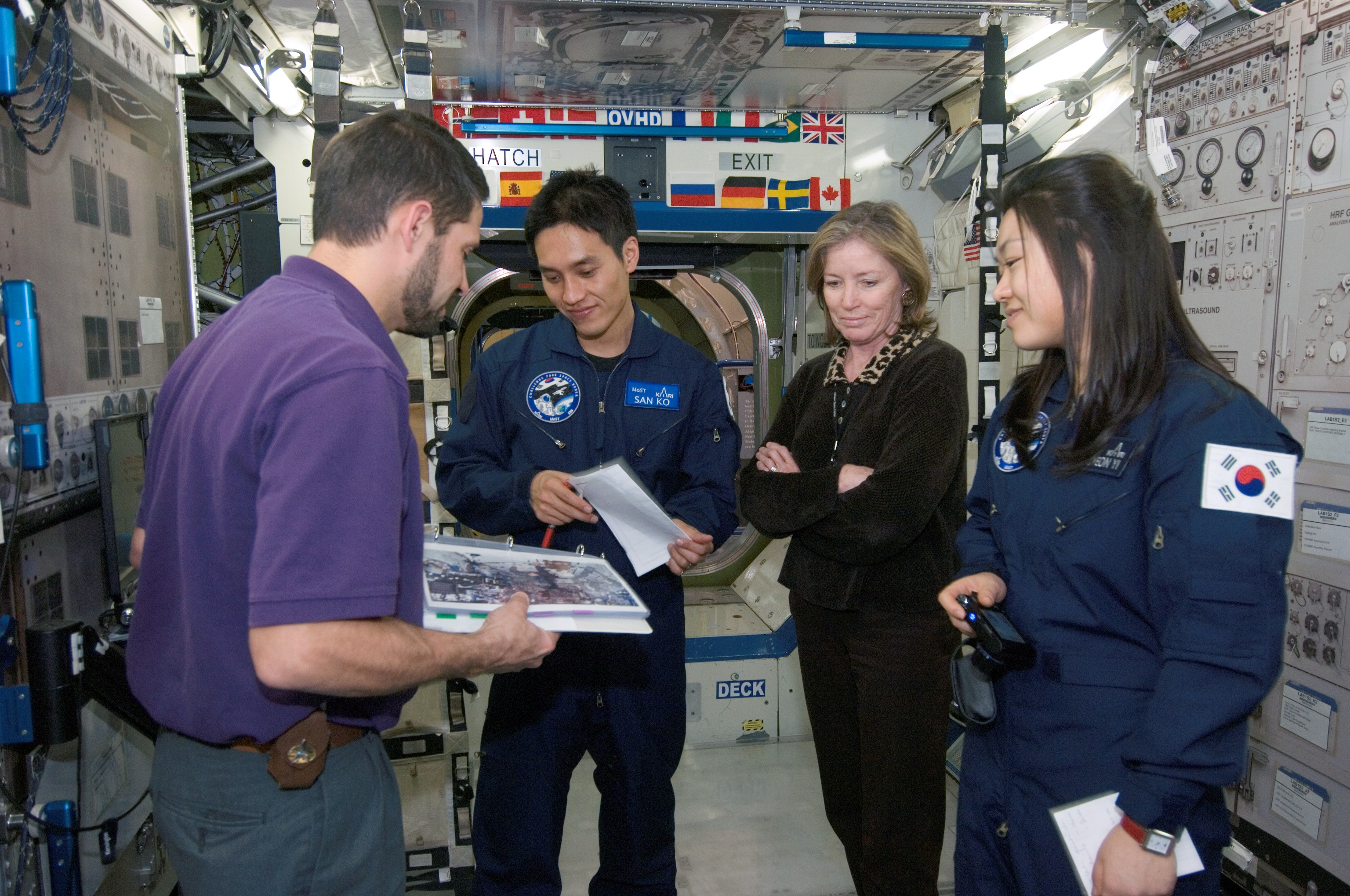 San Ko (second left) and So-yeon Yi (right), South Korean prime and backup spaceflight participants, respectively, participate in a space station hardware training session in the Space Vehicle Mockup Facility at the Johnson Space Center. San is scheduled to launch with the Expedition 17 crew on the Soyuz TMA-12 spacecraft April 8 from the Baikonur Cosmodrome under a commercial agreement between the South Korean government and Roscosmos for nine days on the International Space Station.However, Yi Soyeon replaces his position now.